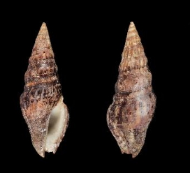 Crassispira bottae (Valenciennes in Kiener, 1839) ; family Pseudomelatomidae; Mazatlan, Mexico